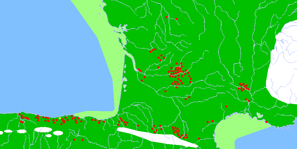 Description: Map of the Franco-Cantabrian archaeological region (Upper Paleolithic), showing: * Main caves with mural art (red dots) * Altamira cave (yellow dot) * Approximate extension of permanent ice (white) * Approximate extension of now submerged lands (light green)